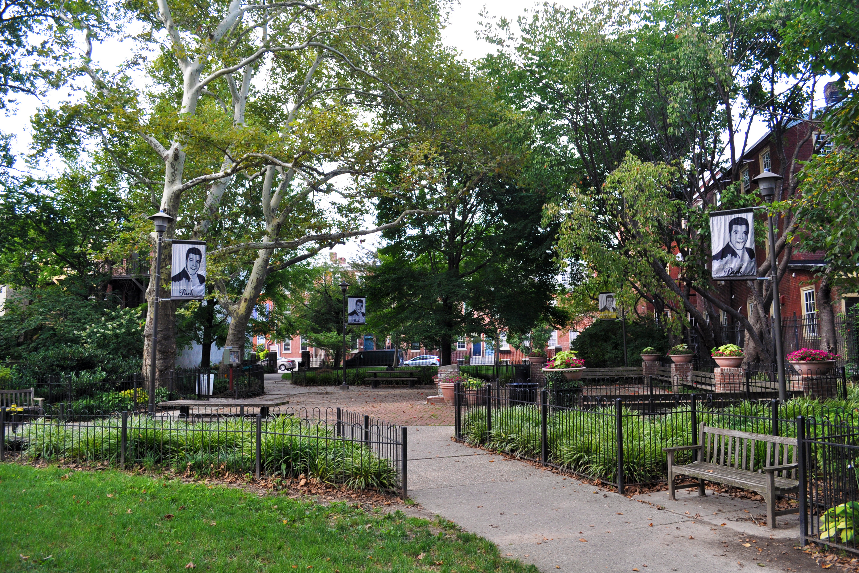 Mario Lanza Park 235 Queen St Philadelphia PA 19147